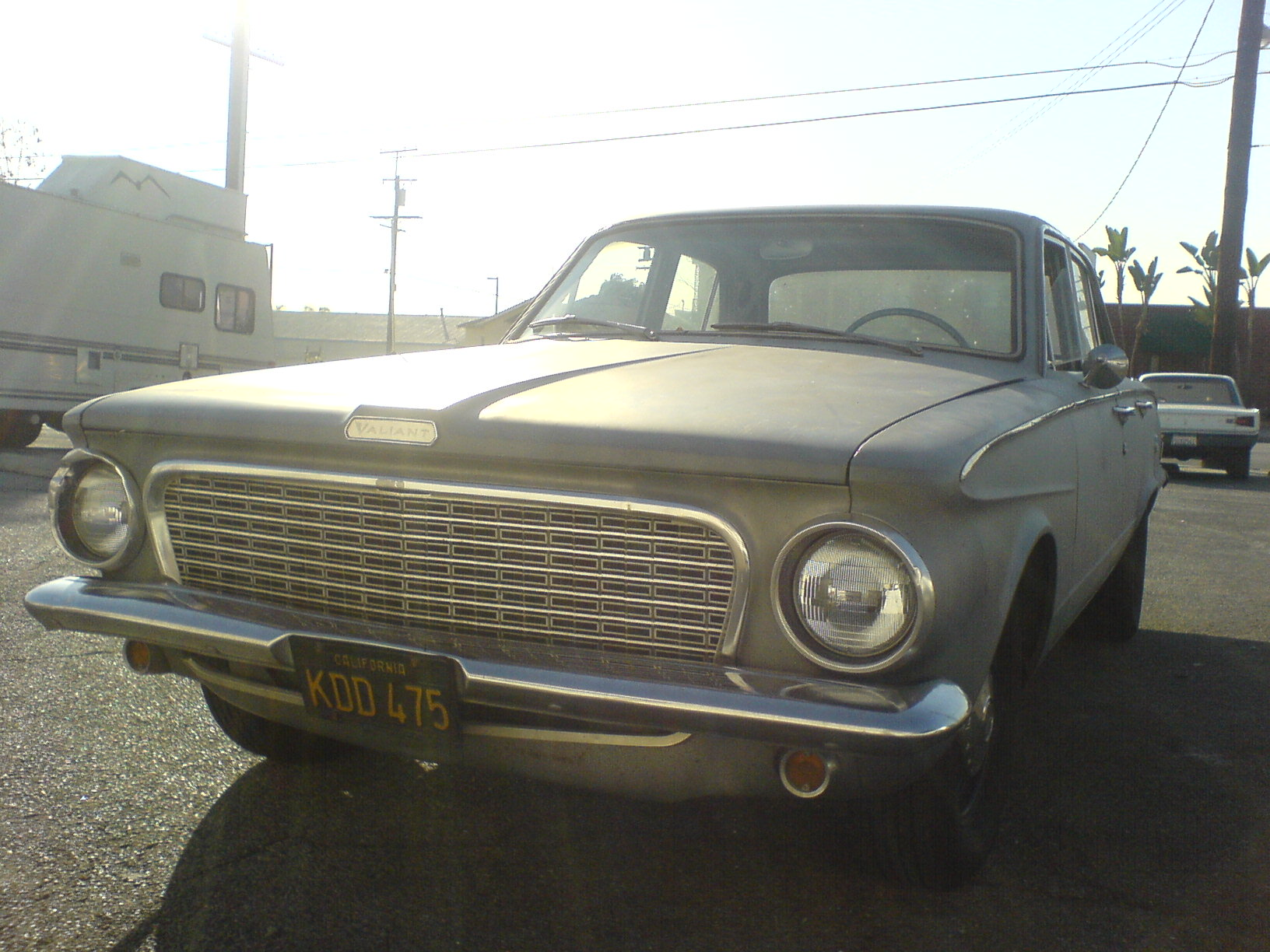 I took this photograph at a local shop in Monrovia, California.